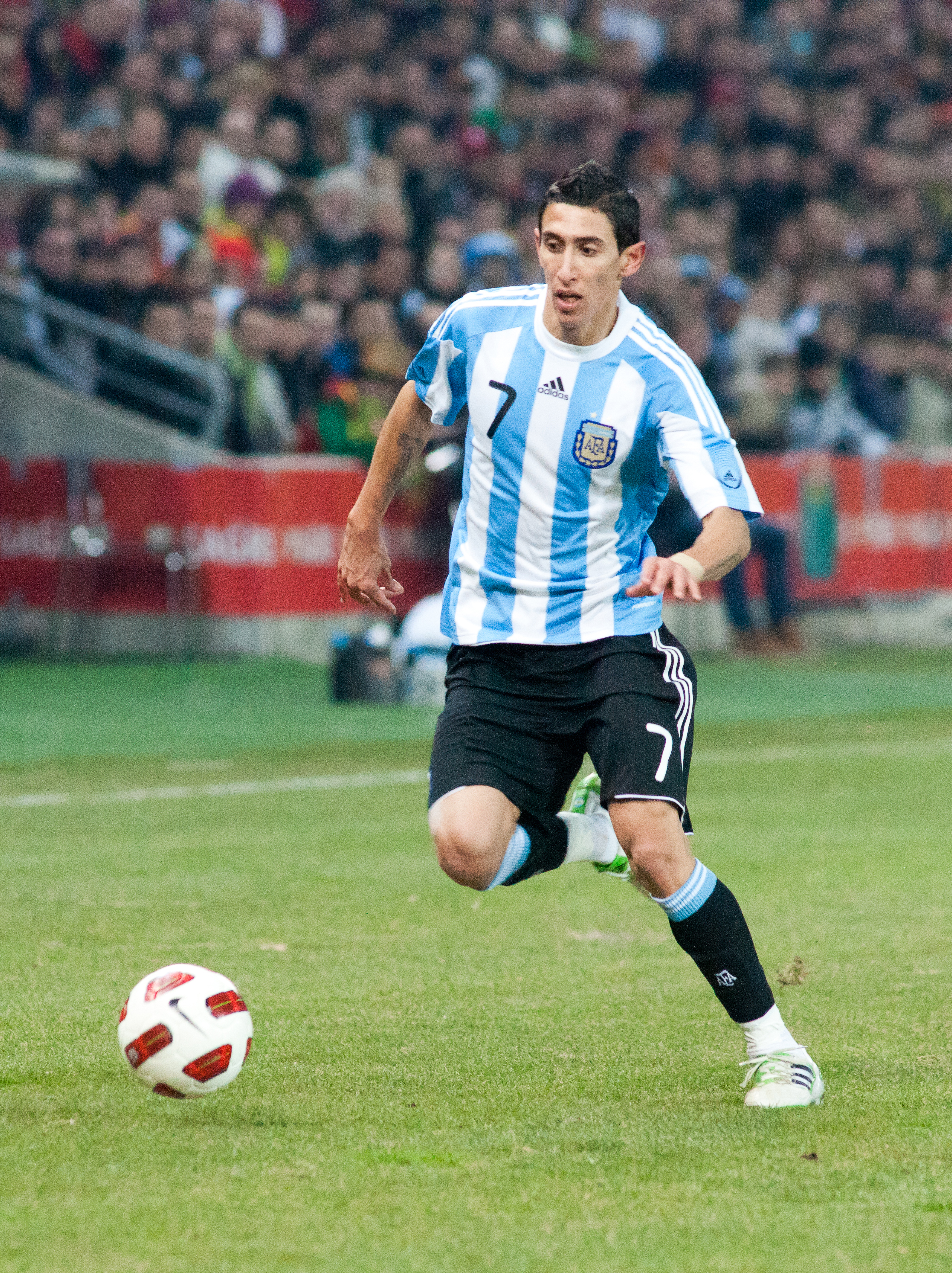 The making of this document was supported by Wikimedia CH. (Submit your project!) For all the files concerned, please see the category Supported by Wikimedia CH. Portugal vs. Argentina, 9th February 2011